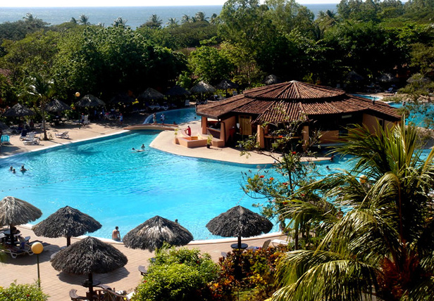 Barcelo Montelimar Beach, in Managua